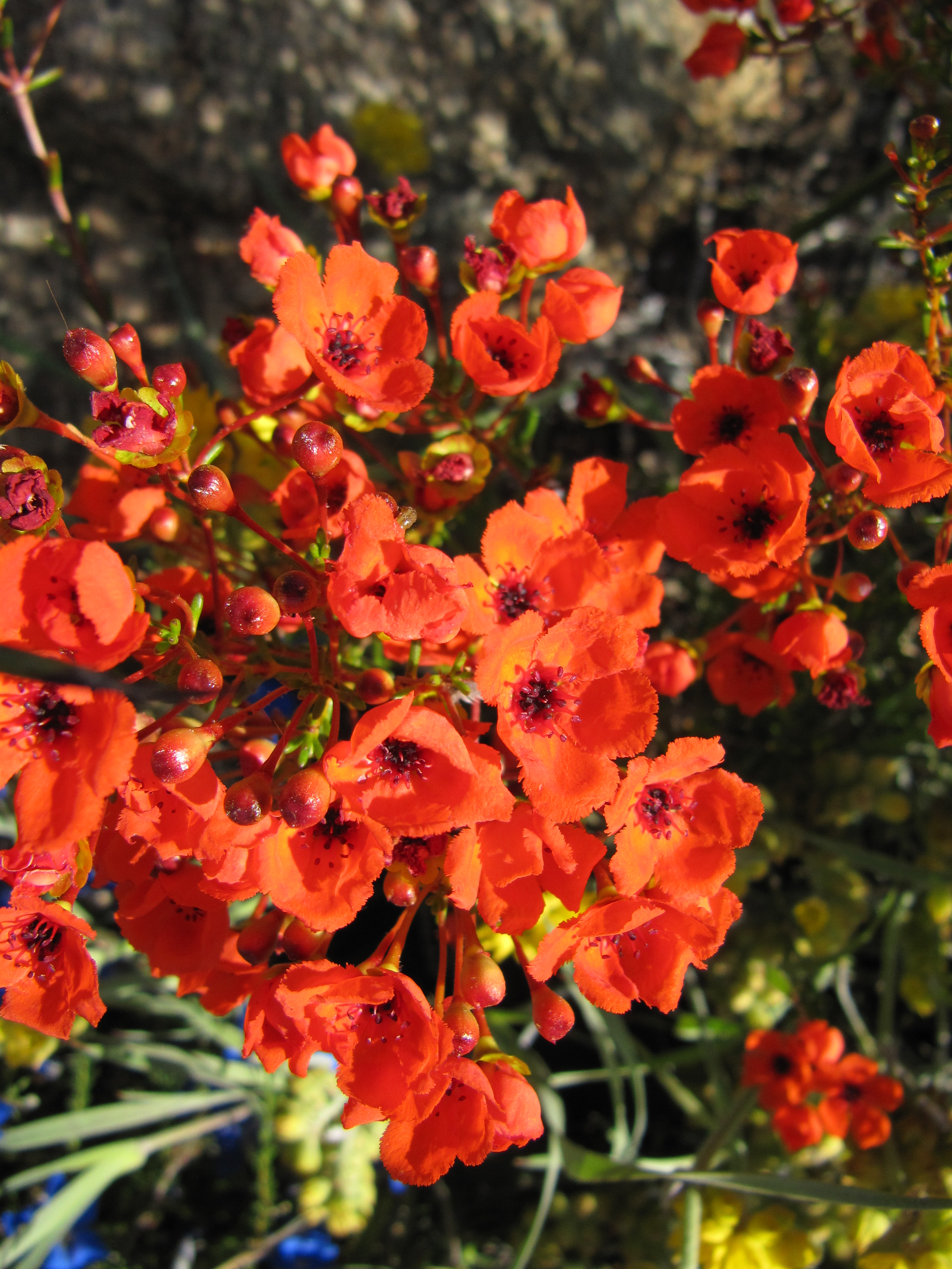 Orange flower of Pileanthus species, Perth, Australia